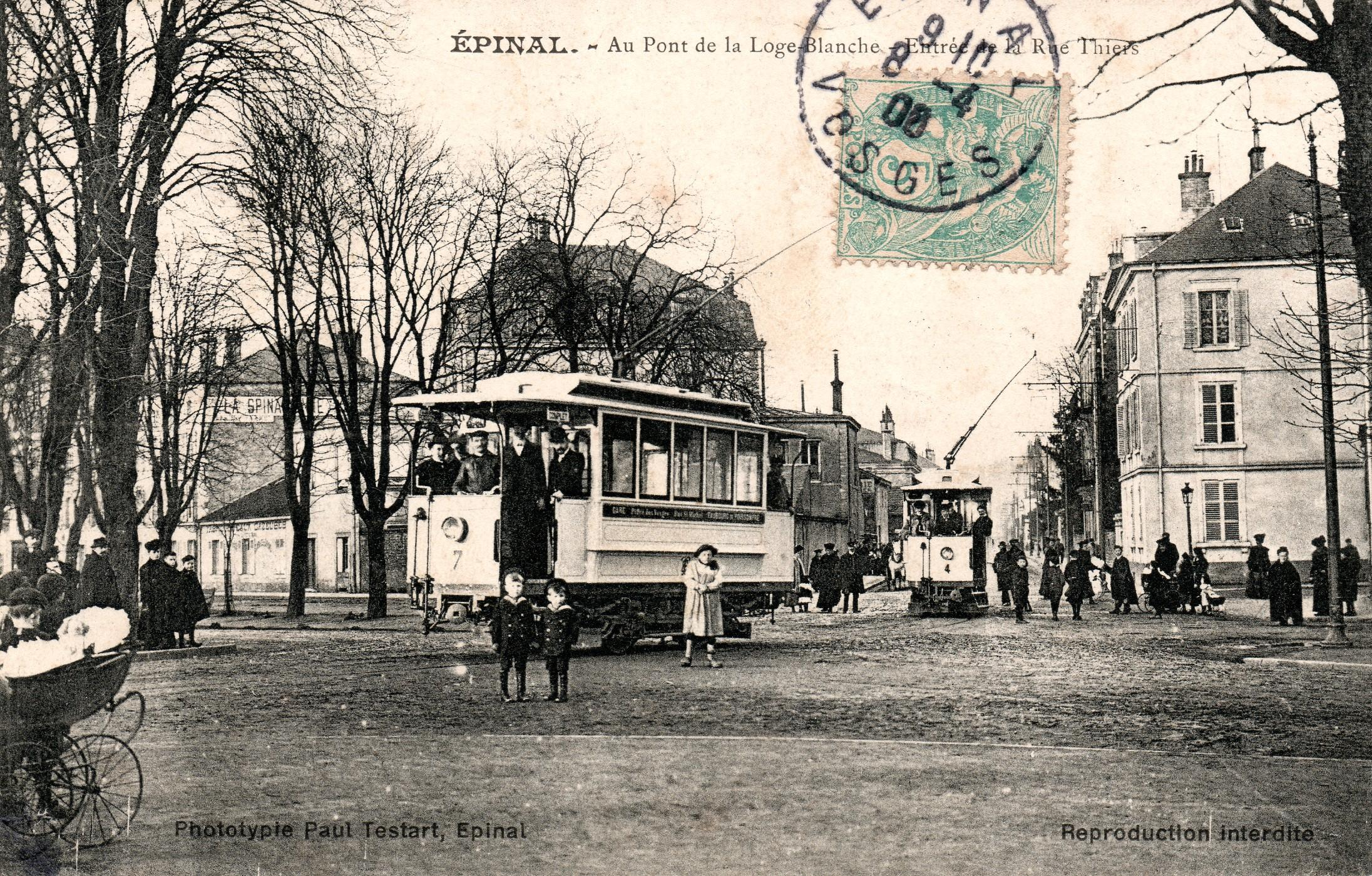 Electric Tram in Epinal (France), rue Thiers, vintage postcard published by " Paul Testart" in 1906